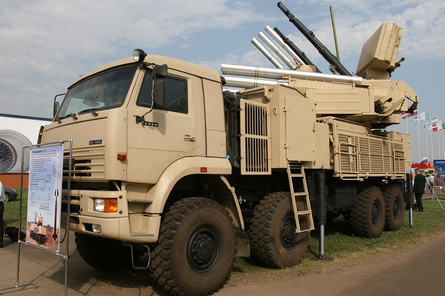 Pantsir-S1 on 8x8 Truck KAMAZ-6560